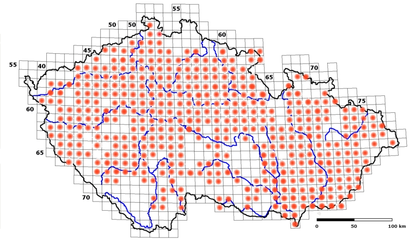 Map of the Czech Republic with grid for primula veris distribution (1990)